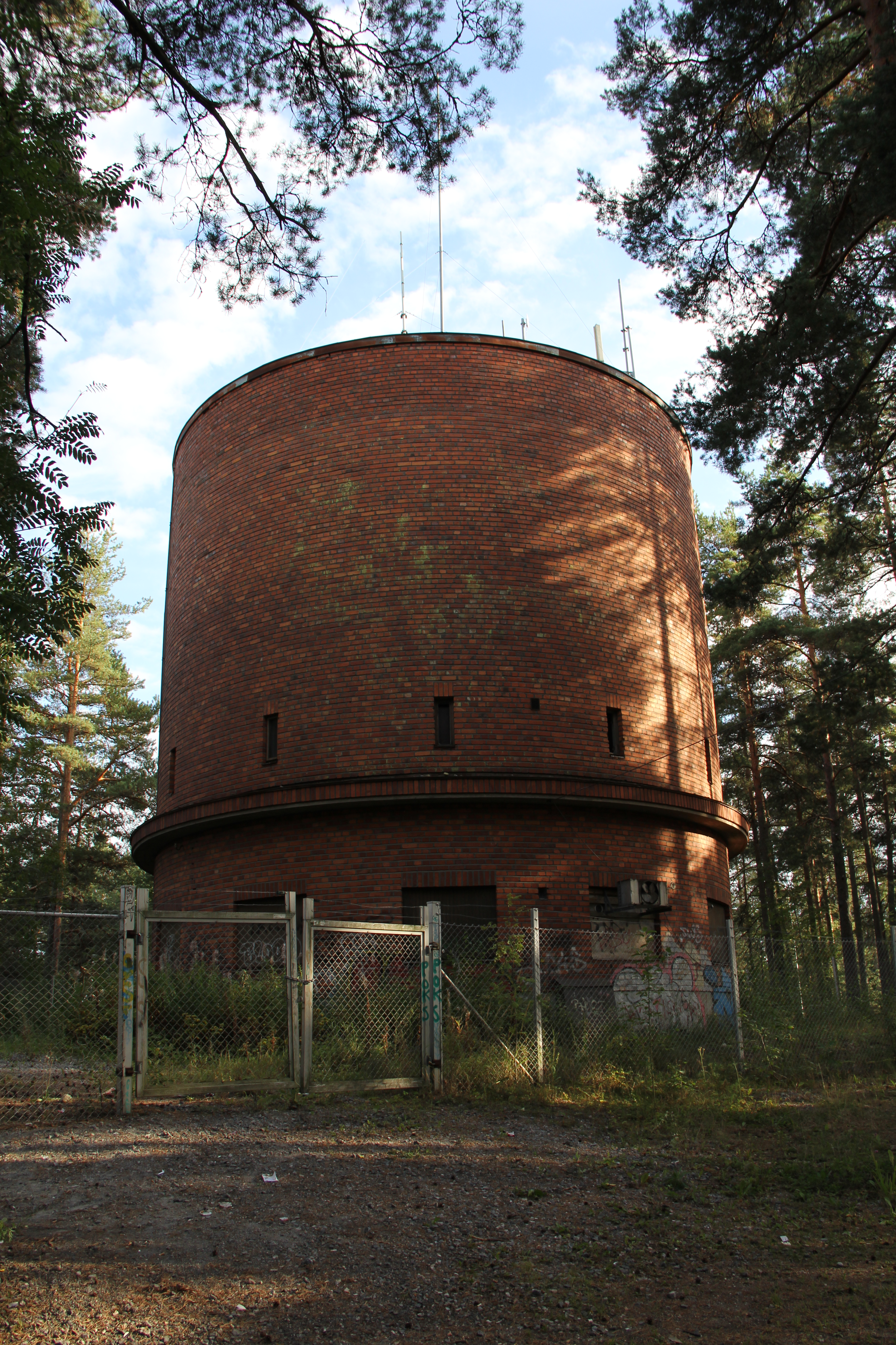 Water tower in the center of Lohja, Finland. Built in 1940, designed by architect Lauri Pajamies, capacity 700 m3.